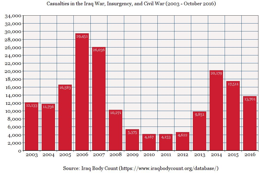 A graph of the total yearly civilian war deaths according to the Iraq Body Count database. See: database.